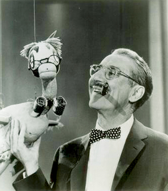 Promotional photo.